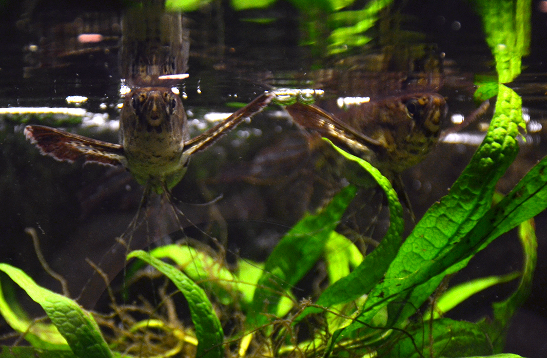 African butterflyfishes ( Pantodon buchholzi ) in Cologne Zoo.